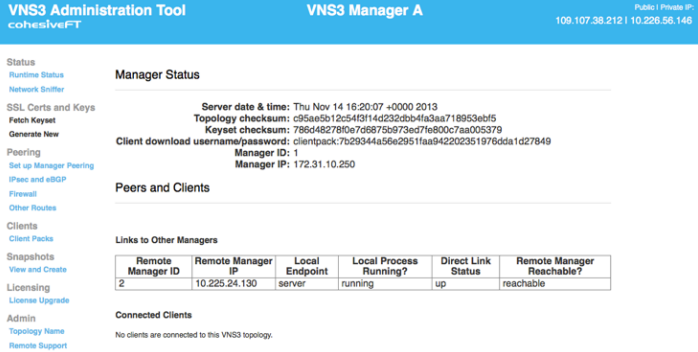 Screen shot of VNS3 Manager UI